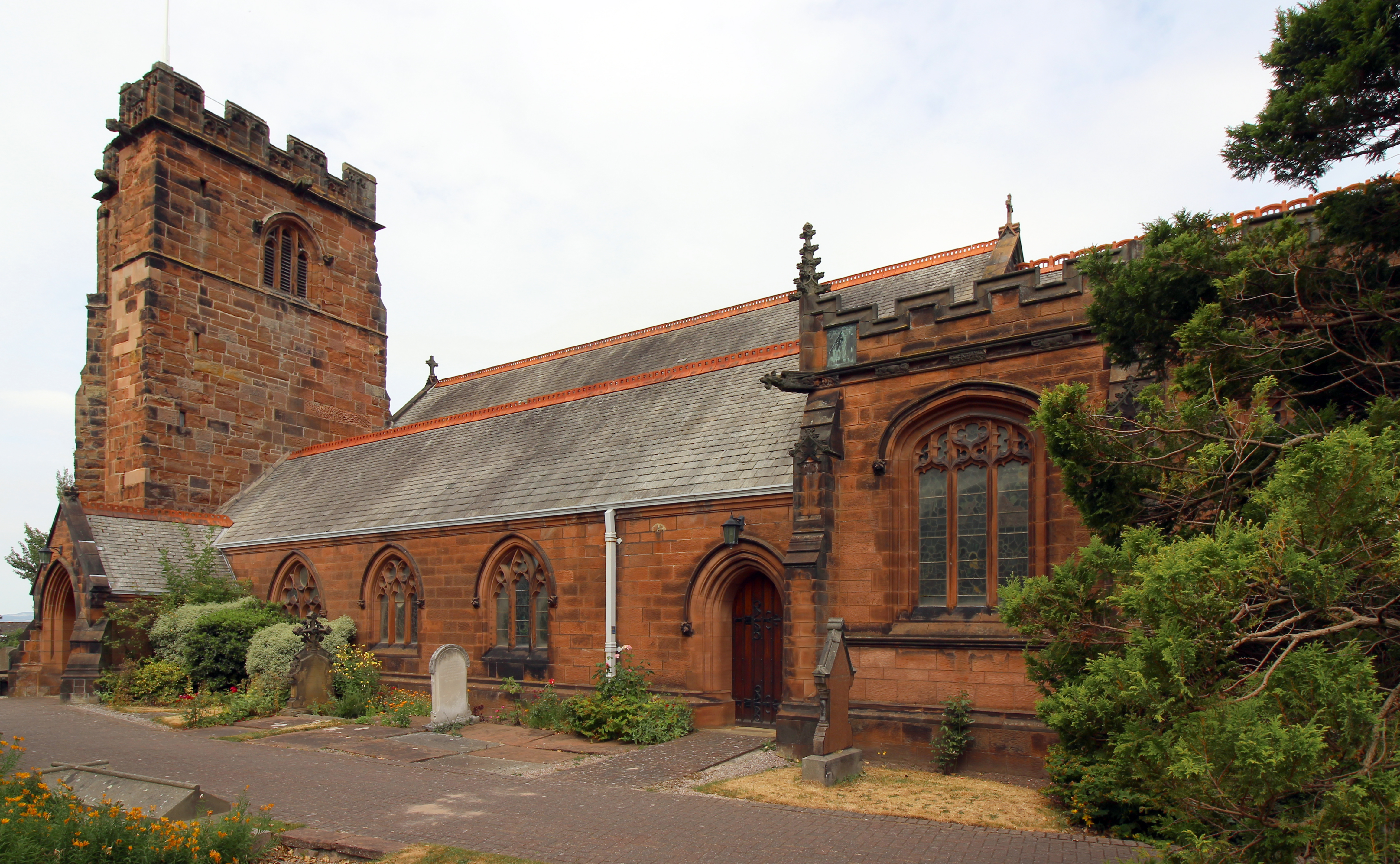 View of the south side of the church towards the tower.